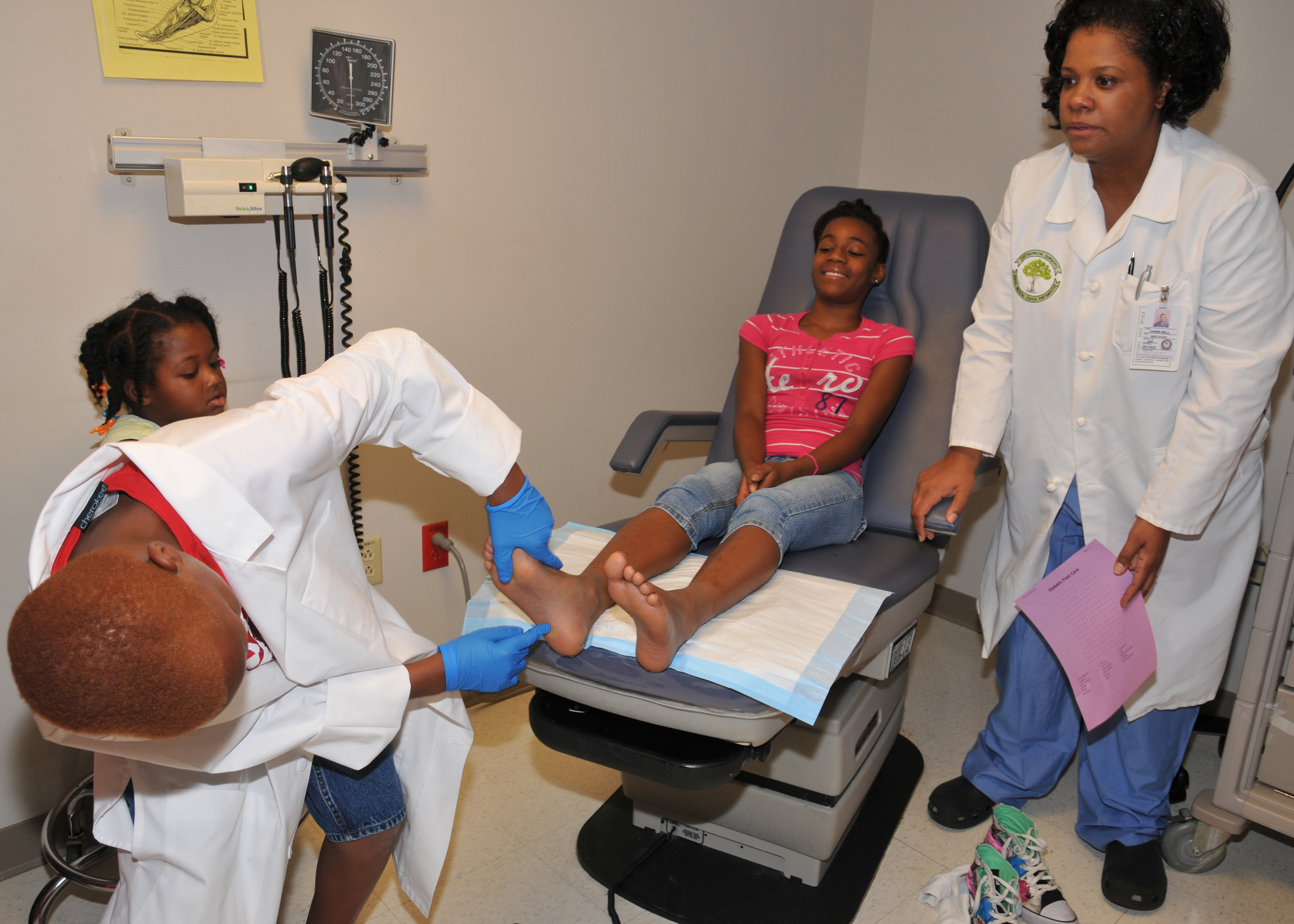 PORTSMOUTH, Va. (Aug. 11, 2010) Dr. Dawn Bell, assigned to the orthopedics department at Naval Medical Center Portsmouth (NMCP), explains the importance of proper foot care to a group of diabetic children. The children are visiting NMCP for the annual Diabetes Marathon, a day to update diabetic children's school health plan and to refresh the participants' knowledge of the ongoing care needed to manage the disease. (U.S. Navy photo by Mass Communications Specialist 2nd Class Riza Caparros/Released)